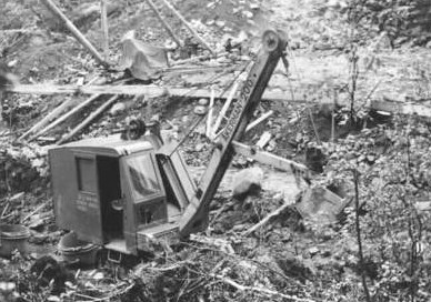 The Åkerman 220 excavator was purchased by Kullervo Korhonen 1950 and used in gold mining at Lemmenjoki, Northern Finland. The project was cancelled in 1951 due to economic failure.